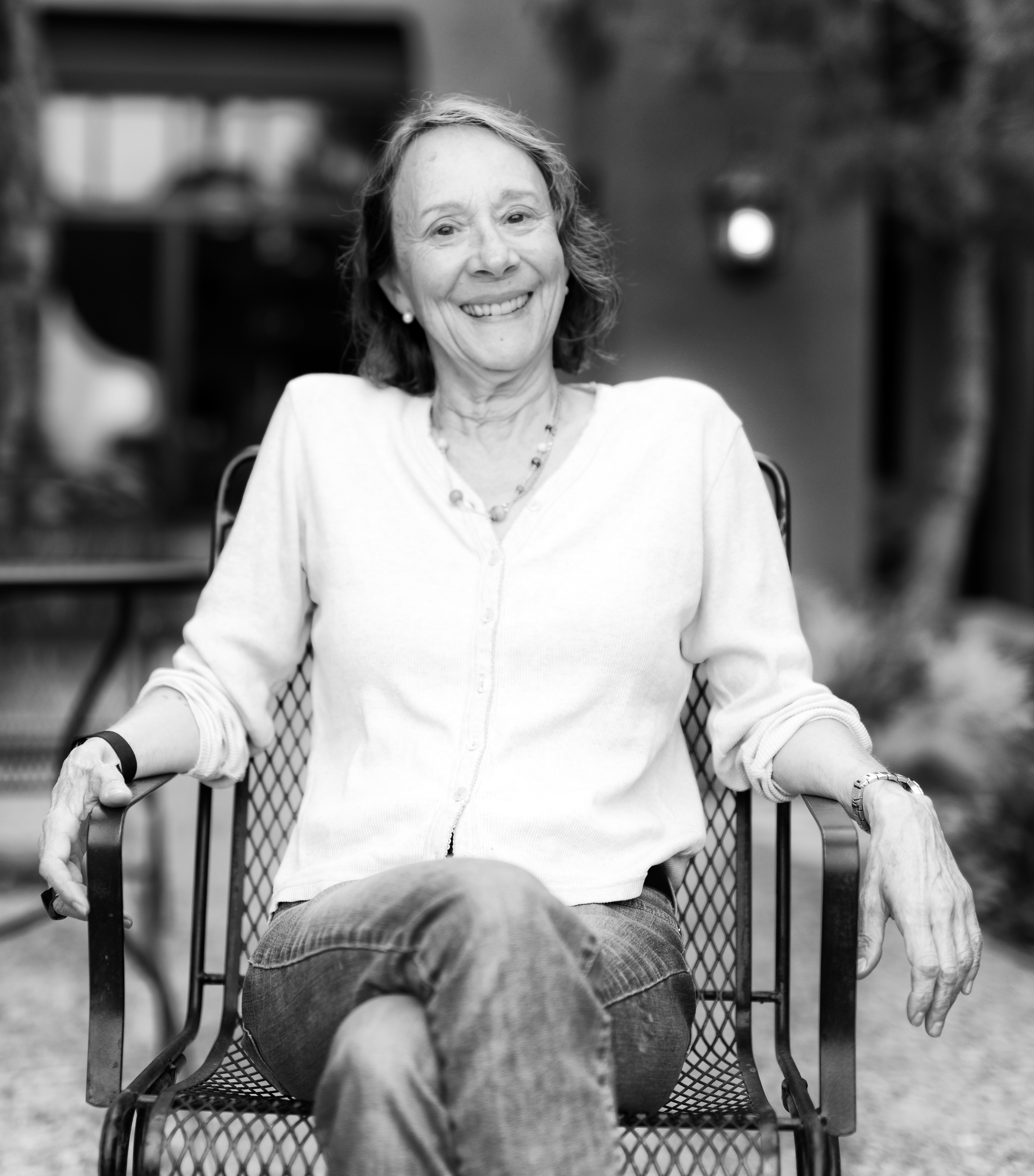 Esther Dyson in 2018 at the Clock of the Long Now by Christopher Michel